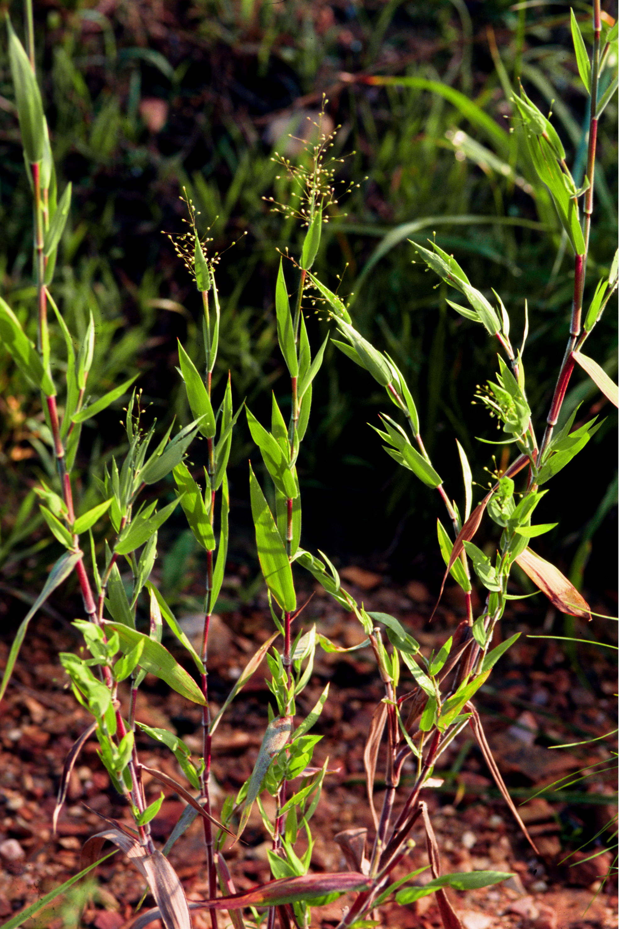 Dichanthelium scoparium (Lam.) Gould - Broom panic grass, Velvet panicum. July. Photo from Forest Plants of the Southeast and Their Wildlife Uses by J.H. Miller and K.V. Miller, published by The University of Georgia Press in cooperation with the Southern Weed Science Society.